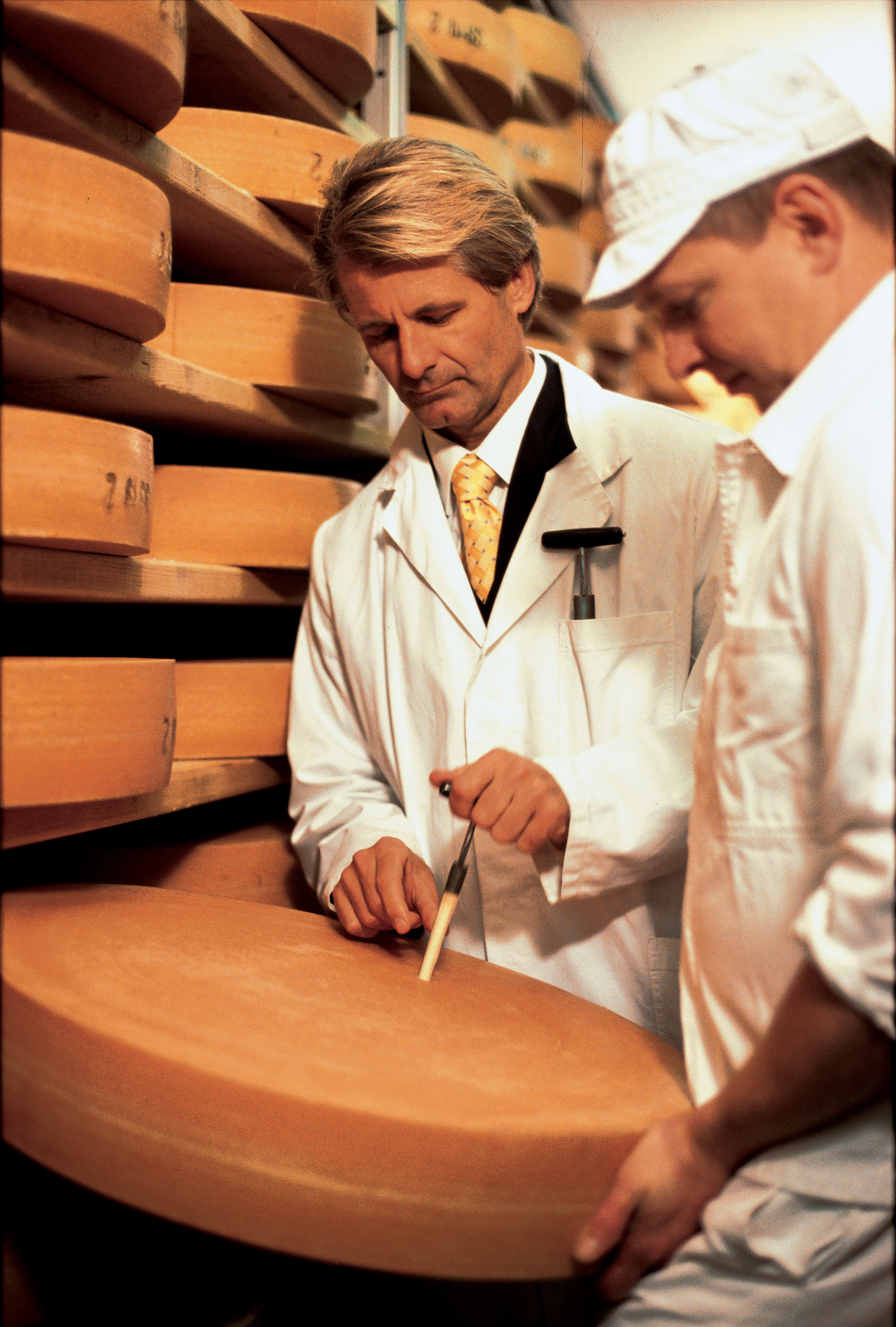 QA during cheese ripening